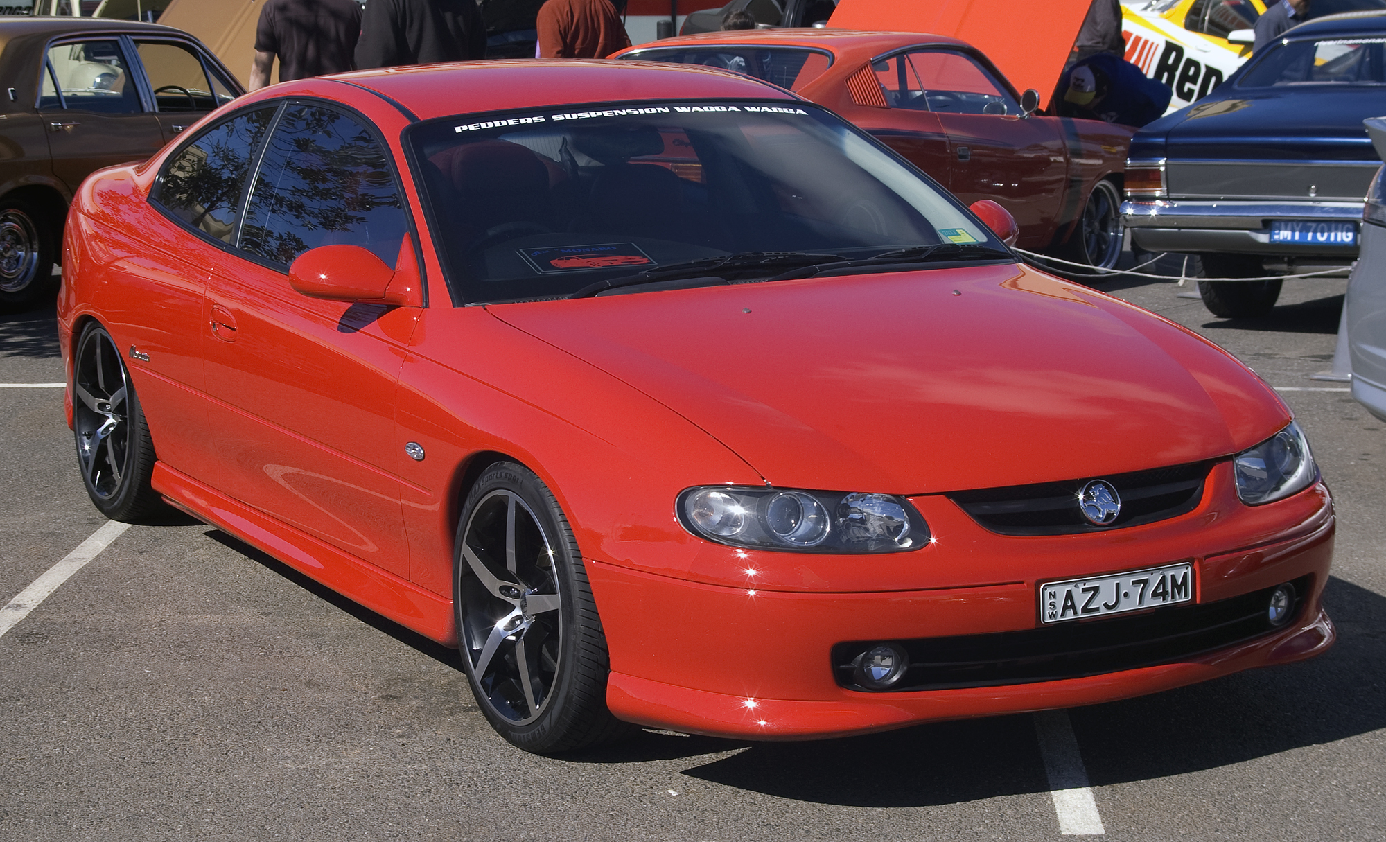 2002 Holden V2 Monaro coupe.